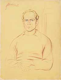 pencil and pastel sketches drawn by Brian Stonehouse during the Second World War